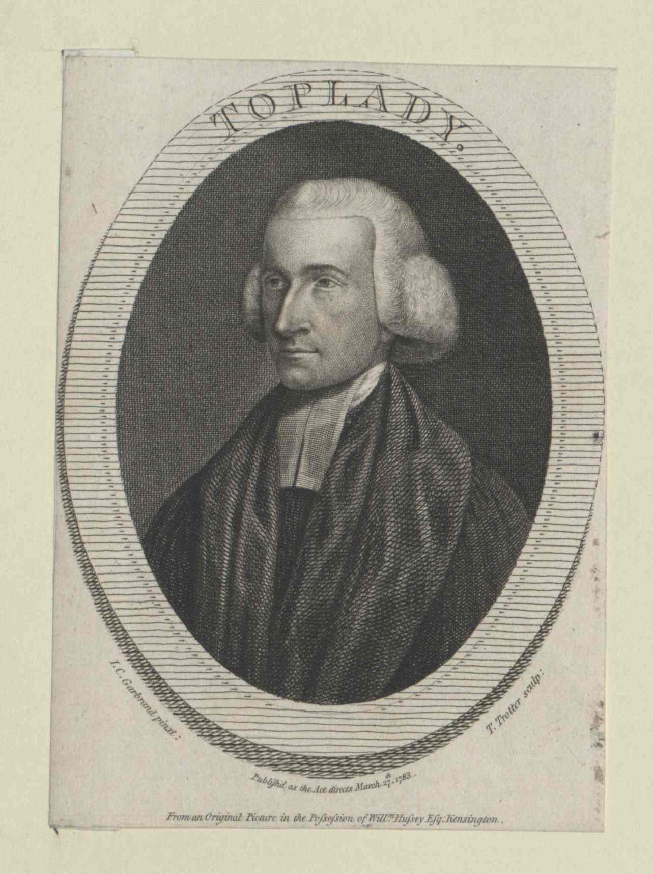 Portrait of Augustust Toplady